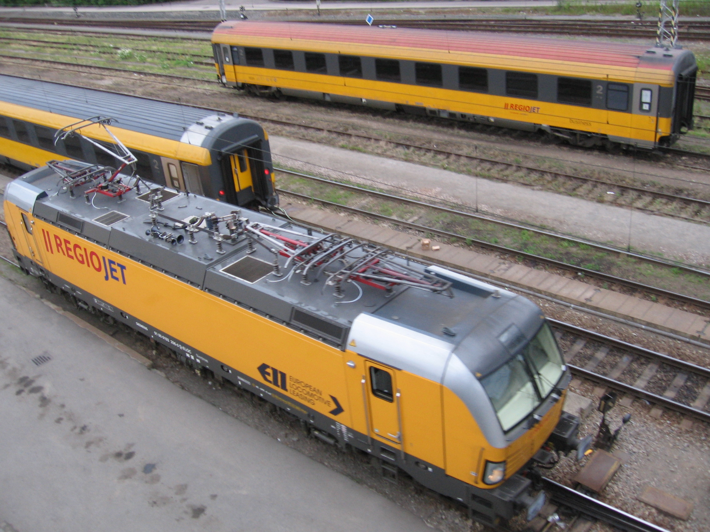 Vectron 193 206 D-ELOC (European Locomotive Leasing) hired by Regiojet at Praha-Smíchov.